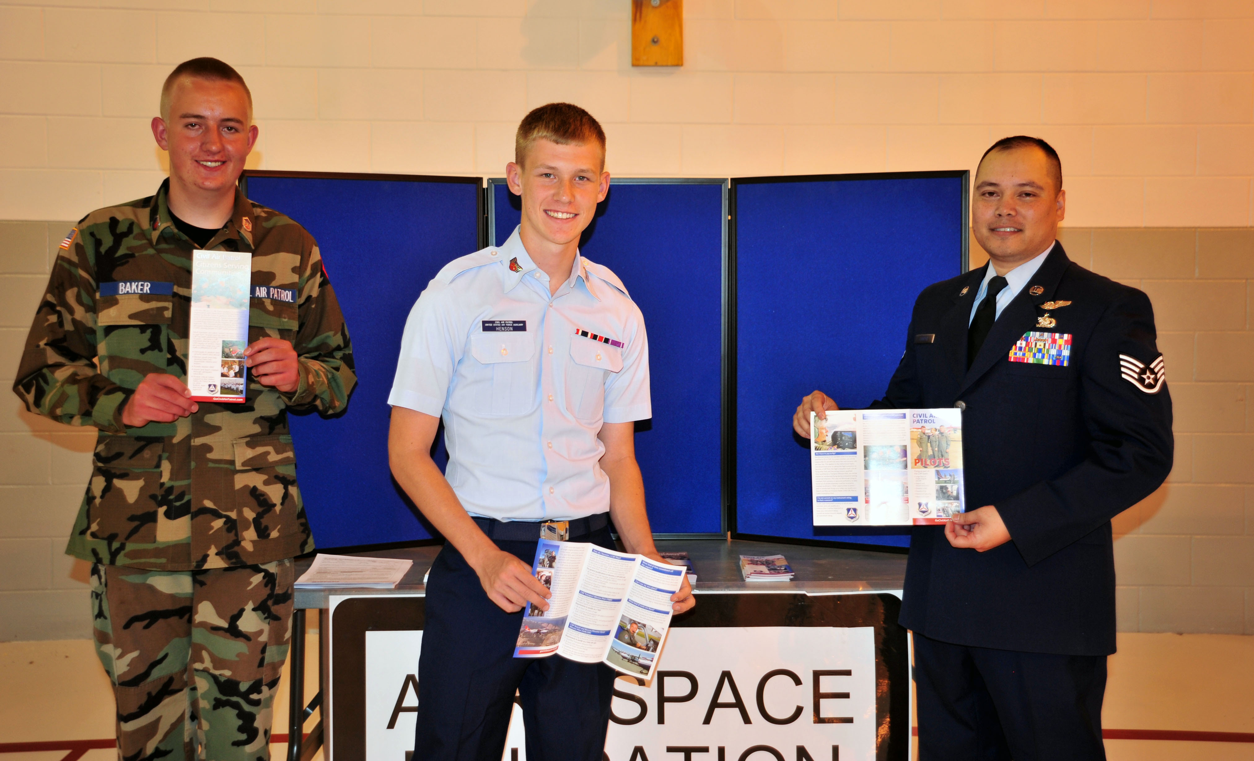 Civil Air Patrol Master Sgt. Nathan Baker (left), CAP Staff Sgt. Troy Henson (center), and U.S. Air Force Staff Sgt. Angelito Cooper (right) pose with informational brochures following the CAP Clovis High Plains Composite Squadron change of command, May 28, 2013. The CAP organization was established as the official auxiliary of the Air Force in 1948 and charged with three primary mission areas: aerospace education, cadet programs and emergency services. (U.S. Air Force photo/Senior Airman Whitney Tucker)